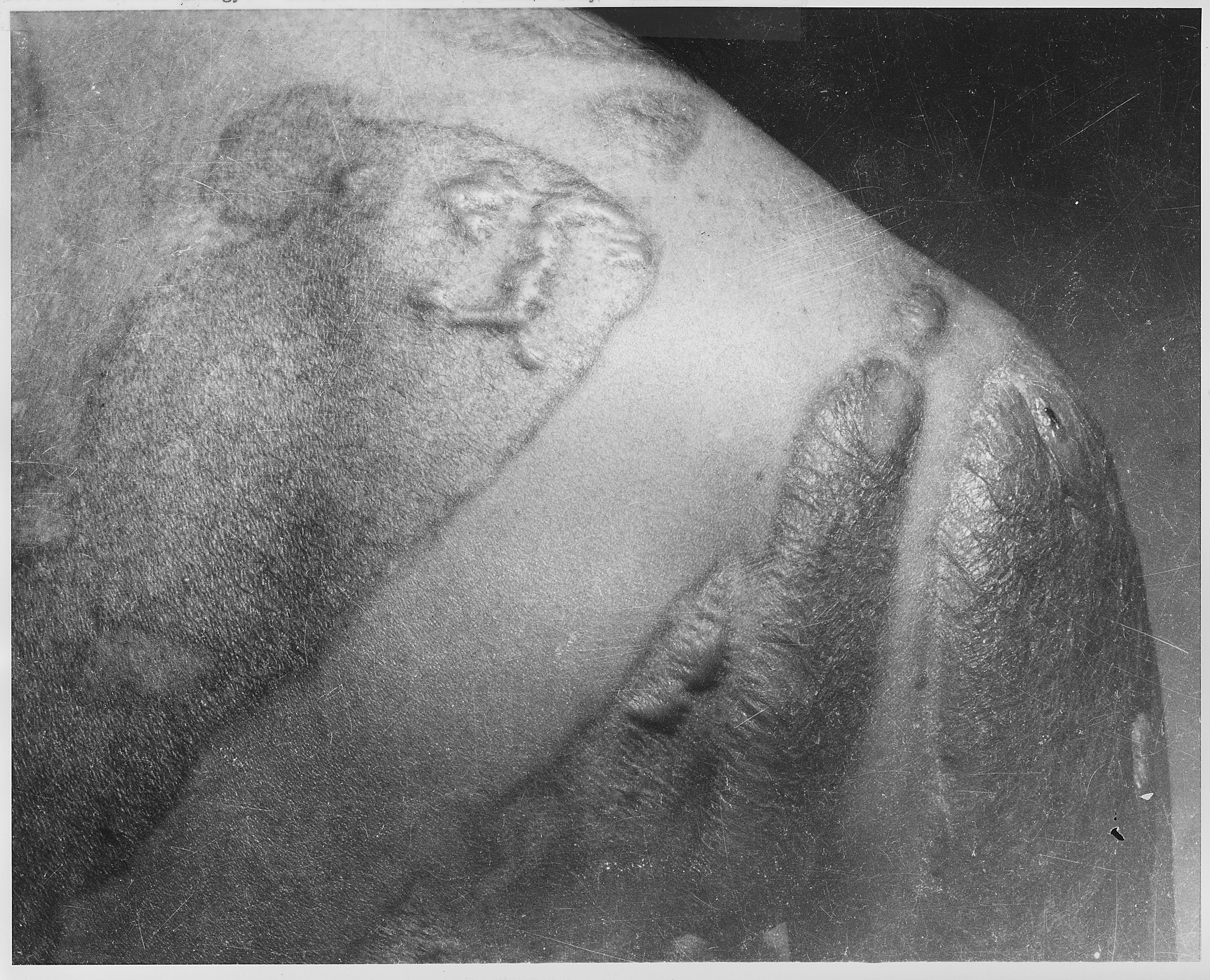 Scope and content: Rayburns. Formation of keloids. Copper-red tissue at center. Dark red-brown hyper-pigmented zone at margins. Close-up. Hiroshima.